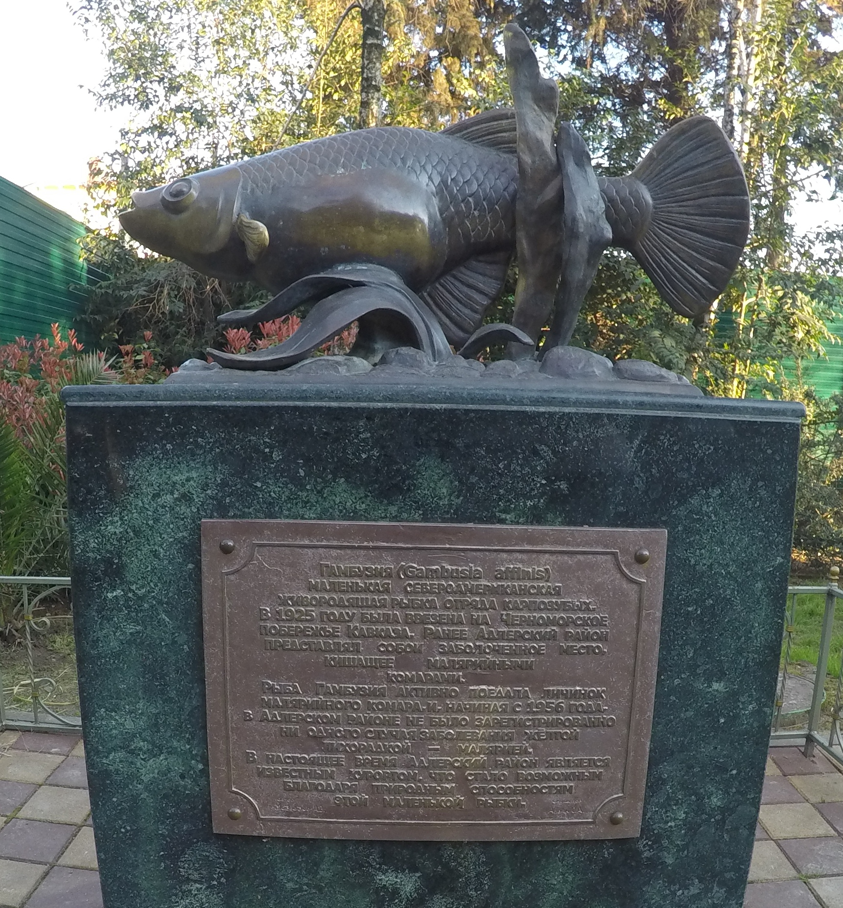 Monument of the Fish Gambusia afinis in Adler, Sochi